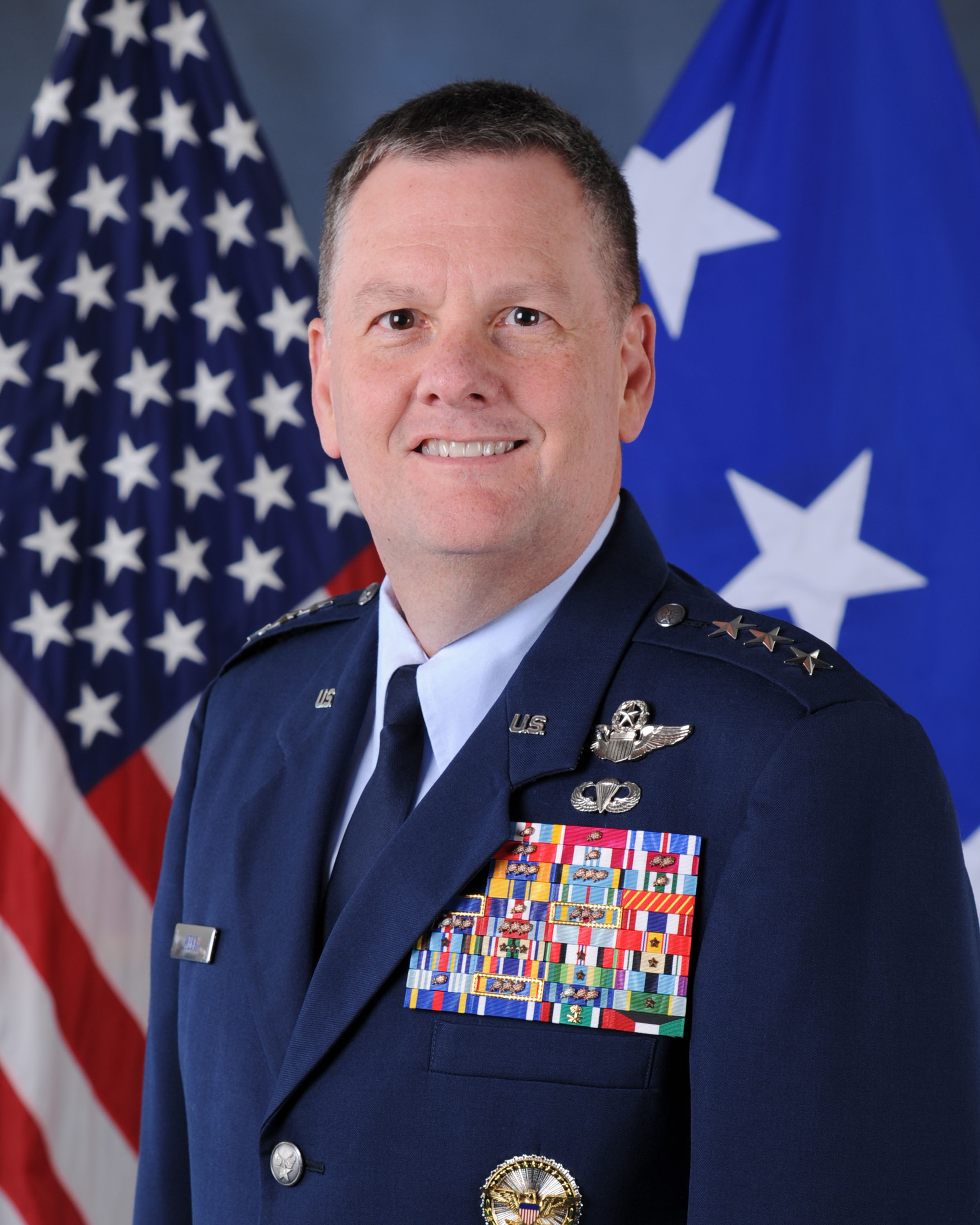 Official Photo of LTG Marshal Webb